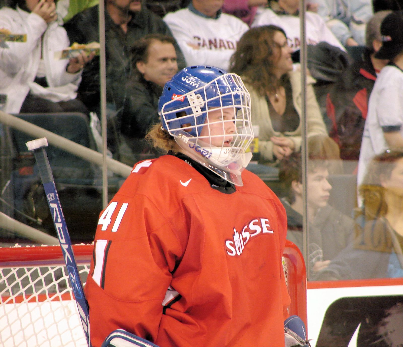 Switzerland goaltender Florence Schelling at the 2007 IIHF Women's World Championships.